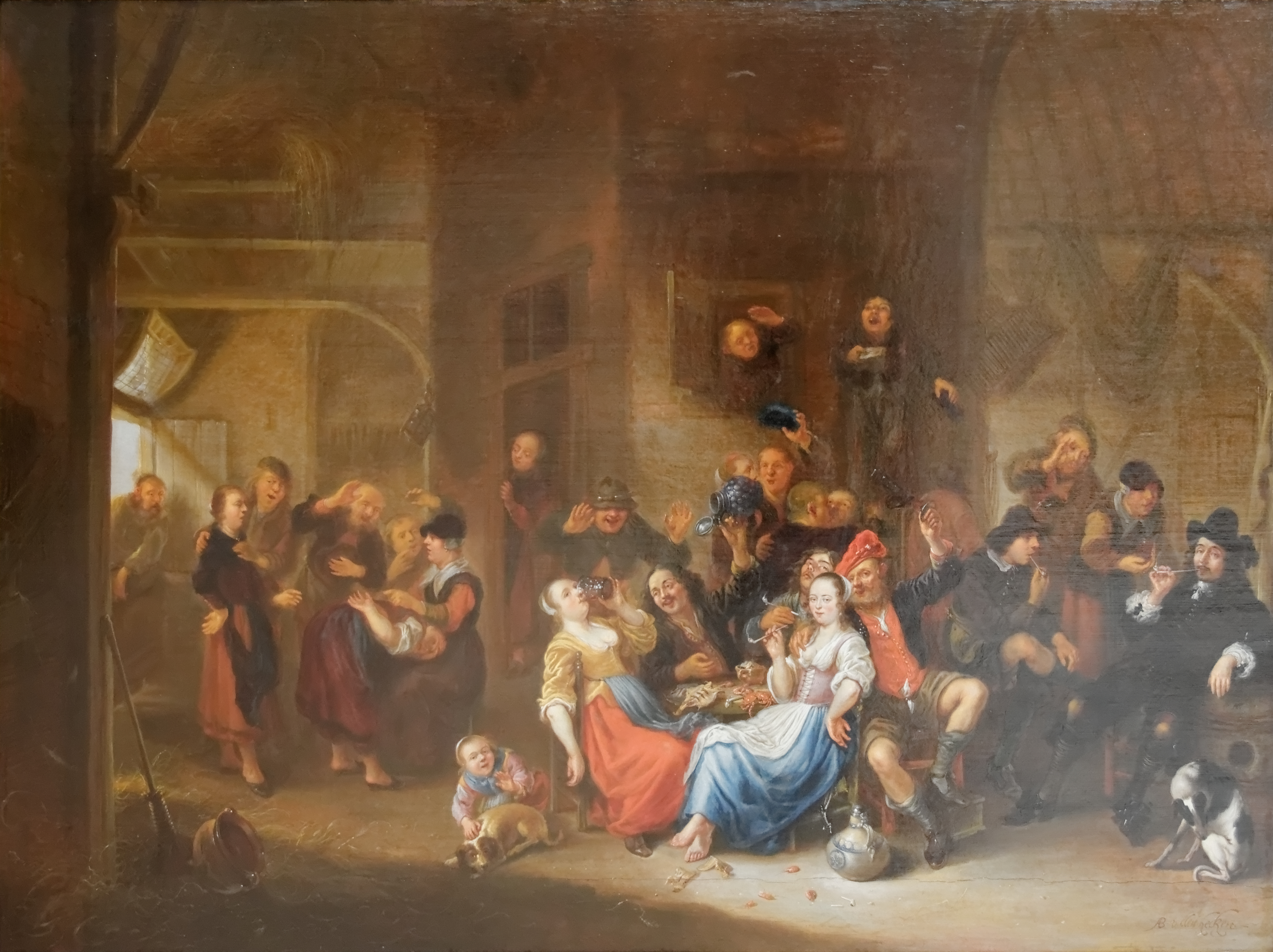 A merry company in a tavern (1640s ?). Abraham II van den Hecke (Born in Antwerp, active in the Hague, Amesterdam and London c 1635-1655). Budapest museum of fine arts. Gift of Countess A Ladányi-Niczky, 1912. N°inv 5417